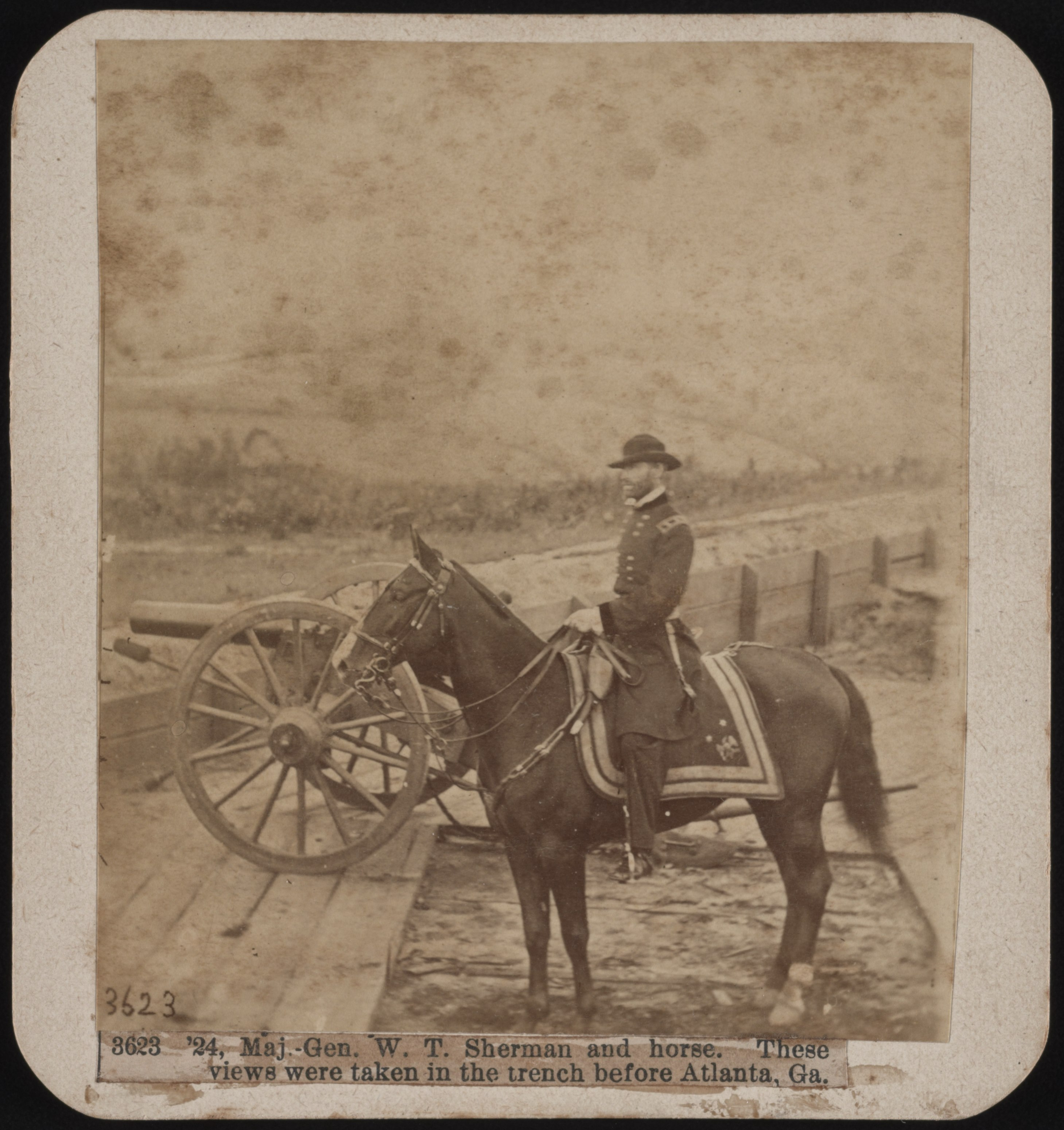 Title: Maj.-Gen. W.T. Sherman and horse. These views were taken in the trench before Atlanta, Ga. Abstract/medium: 1 photograph : albumen print on card mount ; mount 11 x 7 cm (stereograph format)